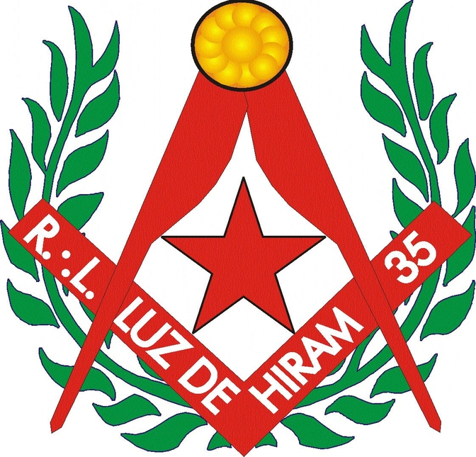 Escudo utilizado a partir de 1905.